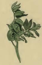 Stainton’s Natural History of the Tineina (1855–1873): Syncopacma coronillella a sprig of Coronilla varia with leaves united by larva